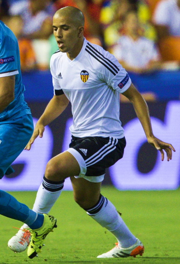 Sofiane Feghouli